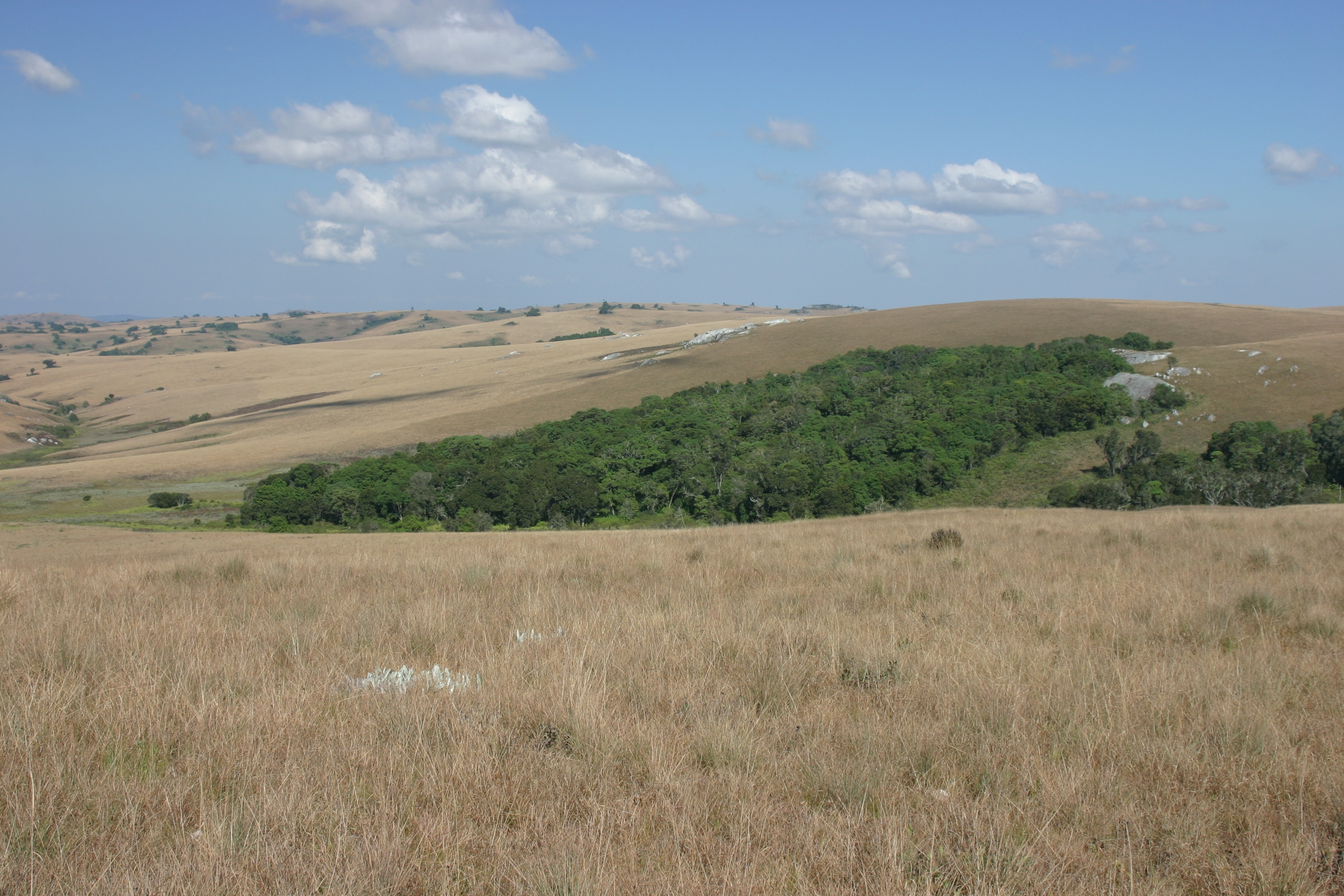 Patch of afromontane Forest on Nyika Plateau, Malawi